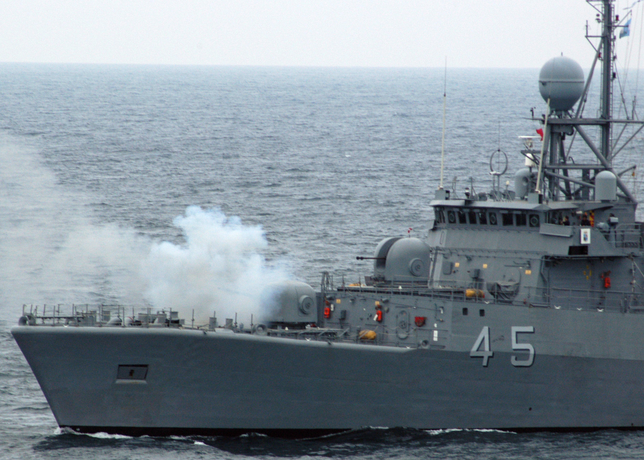 South Pacific (July 14, 2004) - The Argentinean ship ARA Robinson (CM 45) fires its 5 inch gun during a surface gunnery exercise conducted as part of UNITAS 45-04 Pacific Phase. Naval forces from Argentina, Chile, Colombia, Ecuador, Peru and observers from Mexico and Canada are participating in UNITAS 45-04. Eleven partner nations from the U.S. and Latin America joined forces in the largest multilateral exercise in the Southern Hemisphere. Held since 1959, UNITAS aims to unite military forces throughout the Americas with bilateral and multilateral shipboard, amphibious and in-port exercises and operations. UNITAS improves operational readiness and interoperability of U.S. and South American naval, coast guard, and marine forces while promoting friendship, professionalism and understanding among participants. U.S. Navy photo by Lt. Ligia Cohen (RELEASED)